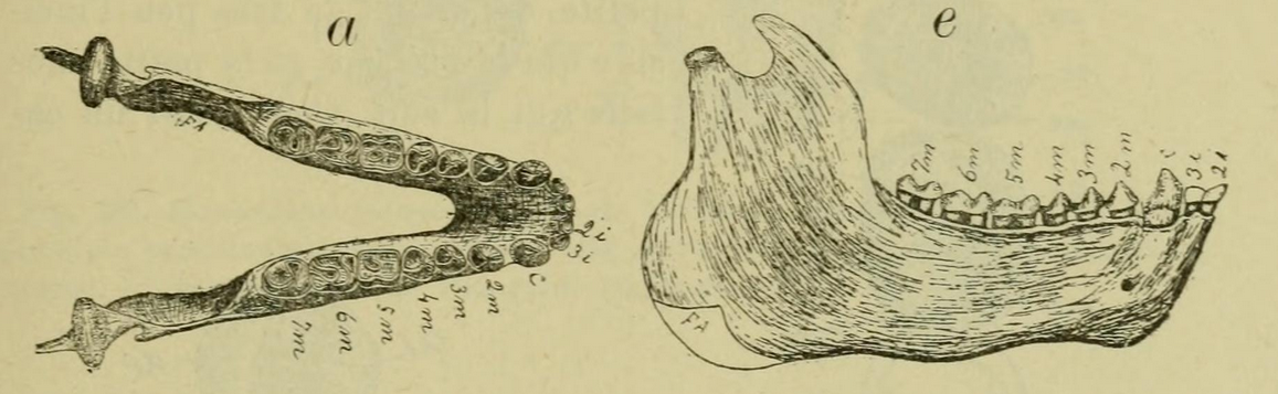 Dentary of Homunculus, illustrated by Florentino Ameghino, Patagonia, Lower/Middle Miocene